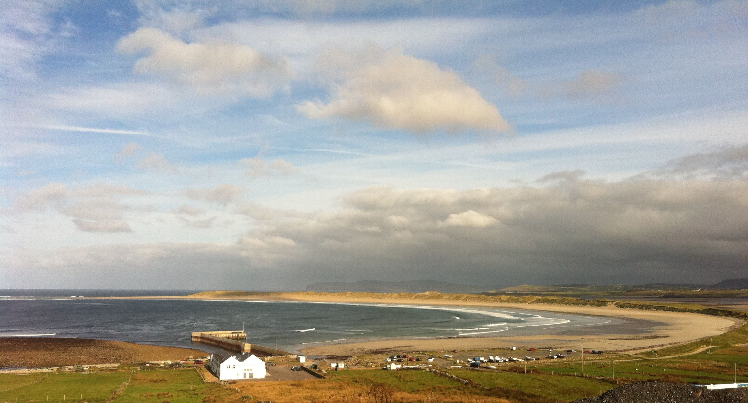 Beach at Magheraroarty, Co Donegal, Ireland